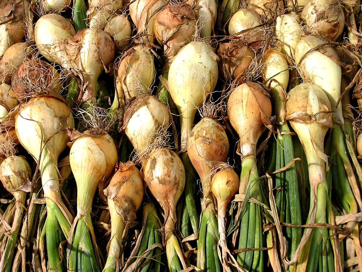 white onions drying